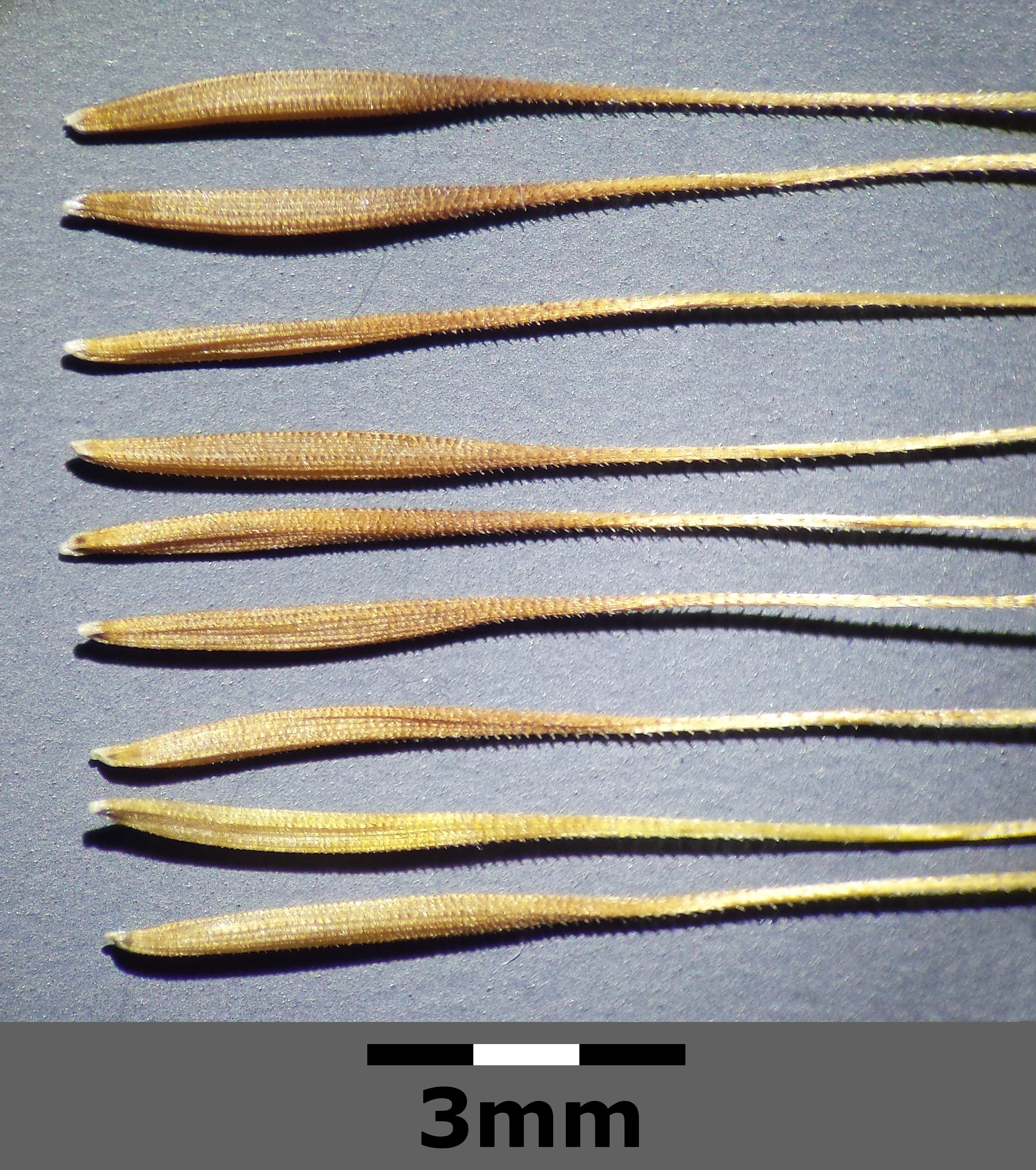 Achenes Taxon: Crepis foetida subsp. rhoeadifolia (sensu Fischer et al. EfÖLS 2008) Location: station Floridsdorf towards Leopoldau, Vienna-Floridsdorf - ca. 170 m a.s.l. Habitat: ballast